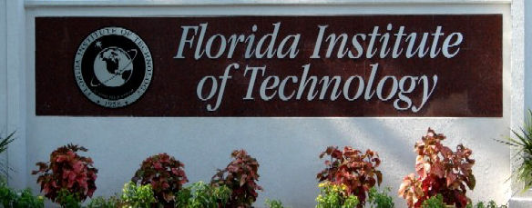 The Florida Institute of Technology sign on Babcock Street.